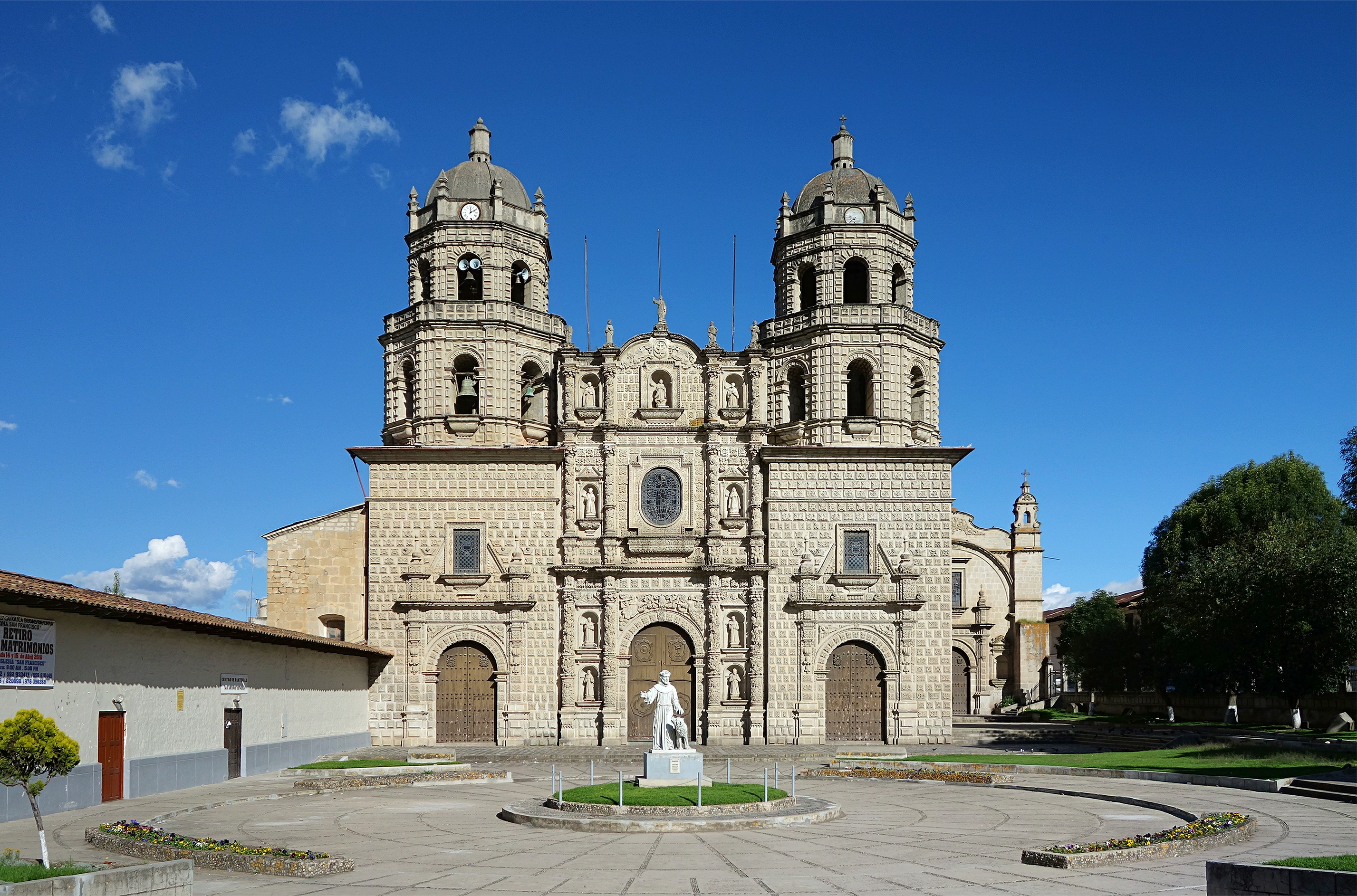 San Francisco church in Cajamarca.